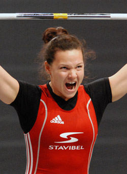 Christine Girard snatching at the 2011 World Weightlifting Championships (WWC)